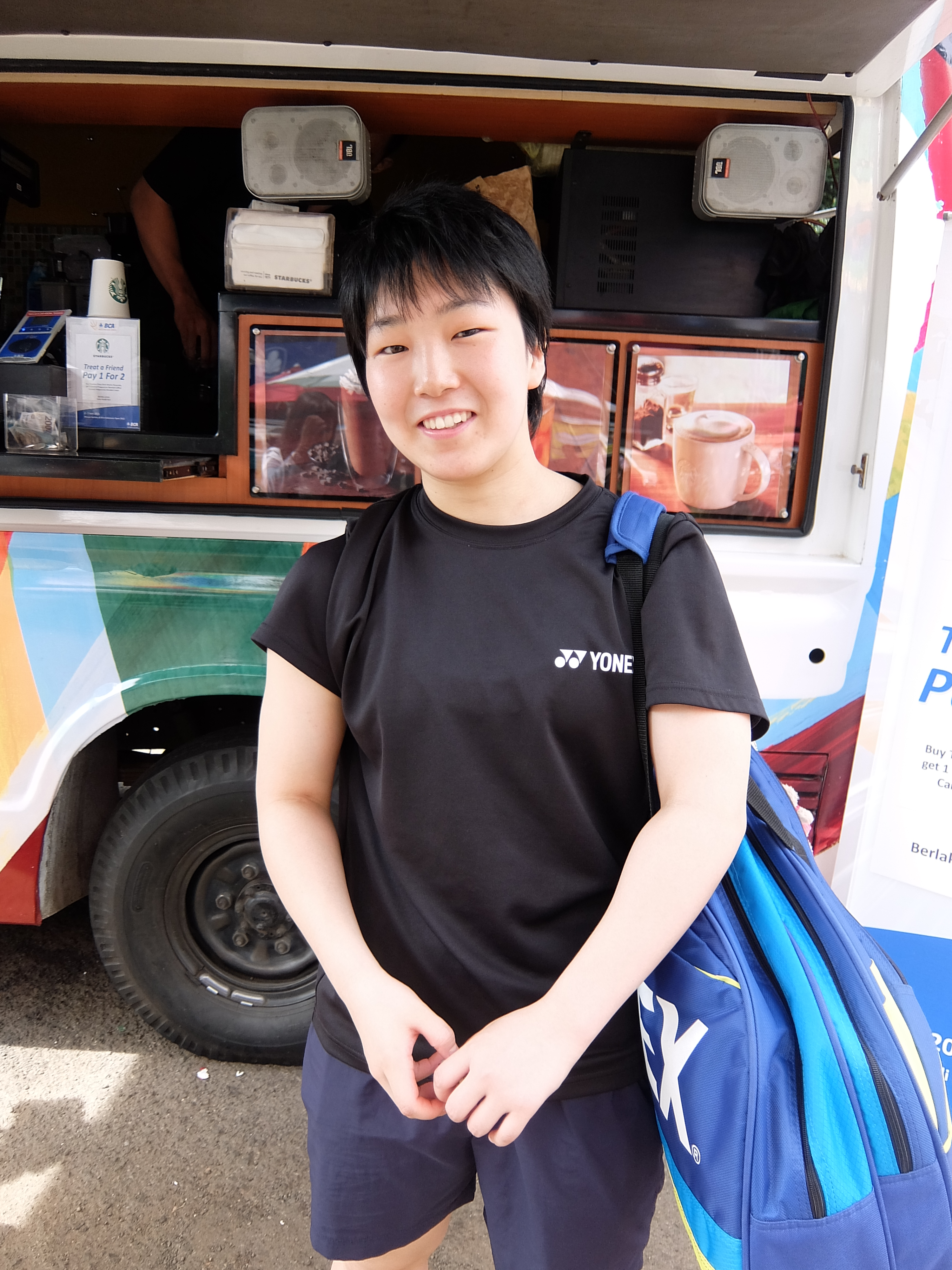 Akane Yamaguchi was waiting for her Starbucks refreshment just before her quater final round of Indonesia Open Super Series Premier 2015 started